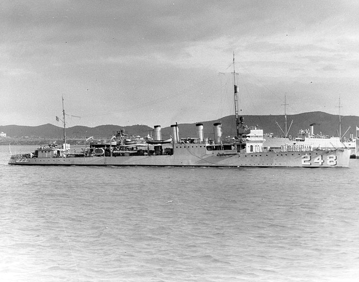 The U.S. Navy destroyer USS Barry (DD-248) in Guantanamo Bay, Cuba, during the late 1920s or early 1930s.